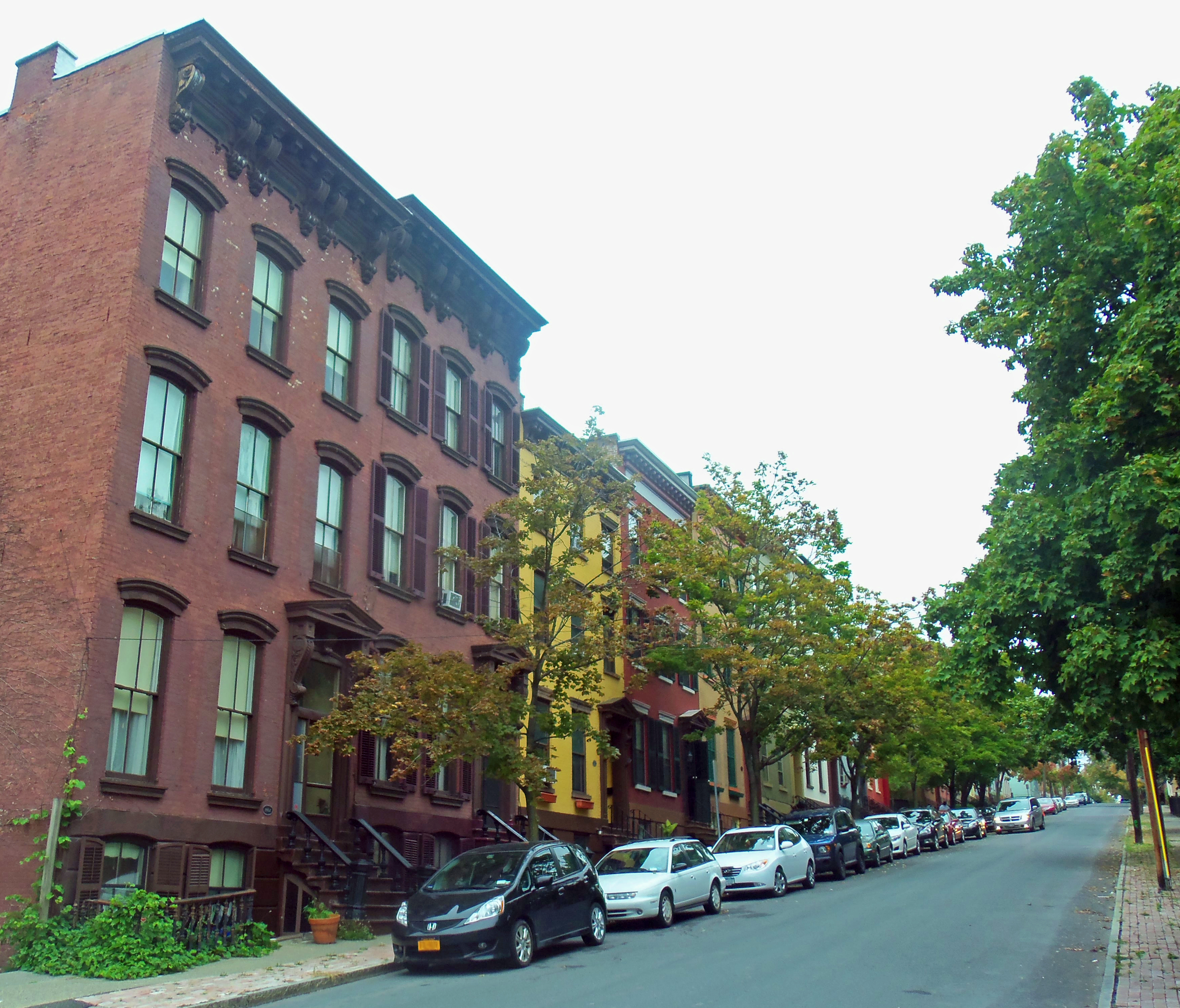 View of rowhouse at 2–38 First Street in Albany, NY, USA, all contributing properties to the Arbor Hill Historic District.